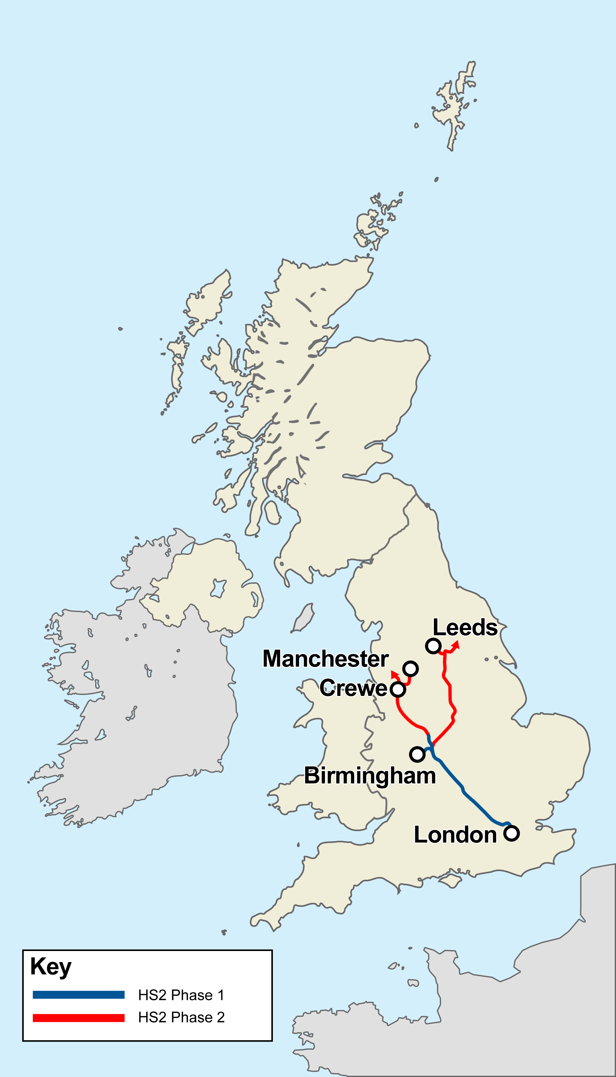 Outline map of new high-speed rail lines in the UK showing the existing LGV/Channel Tunnel and High Speed 1 to London, along with the the planned High Speed 2 lines as announced by the UK Department for Transport: London-Birmingham Birmingham-Leeds and Manchester Additional routes to Newcastle, Edinburgh and Glasgow are outlined as proposed by the Scottish Partnership Group for High-Speed Rail (but not part of the official DfT scheme). Other routes which were previously included for context have been removed.